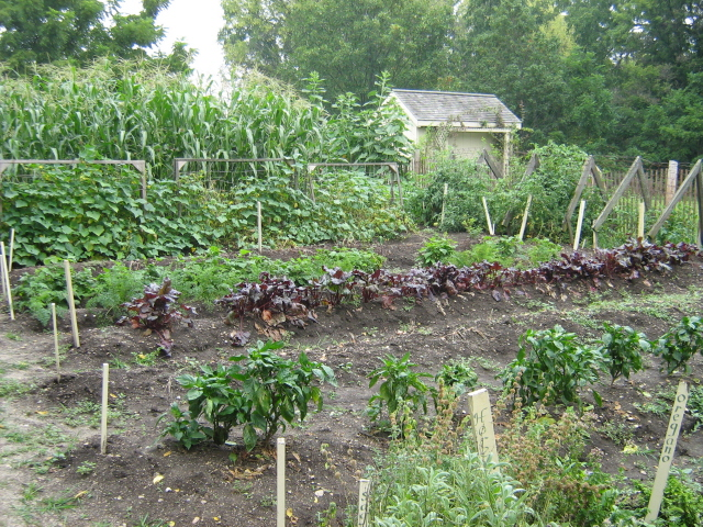 herb garden - Kline Creek Farm - 08192006